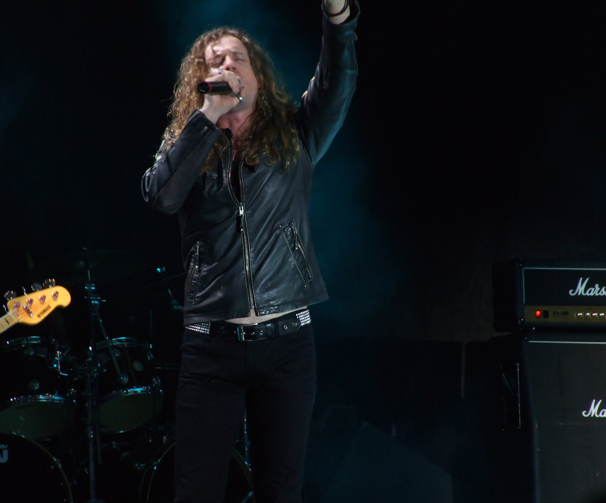 The British rock vocalist Toby Jepson performing with the tribute formation DIO Disciples at Kavarna Rock Fest 2012, Bulgaria.